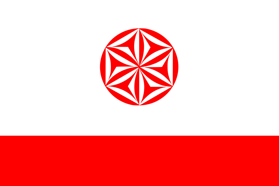 "Arpitan flag". Originally created by the Piedmonteses in the 80s. The flag is used in Piedmont as flag of the Arpitan minority, but also in the other lands where the Arpitan language is spoken.